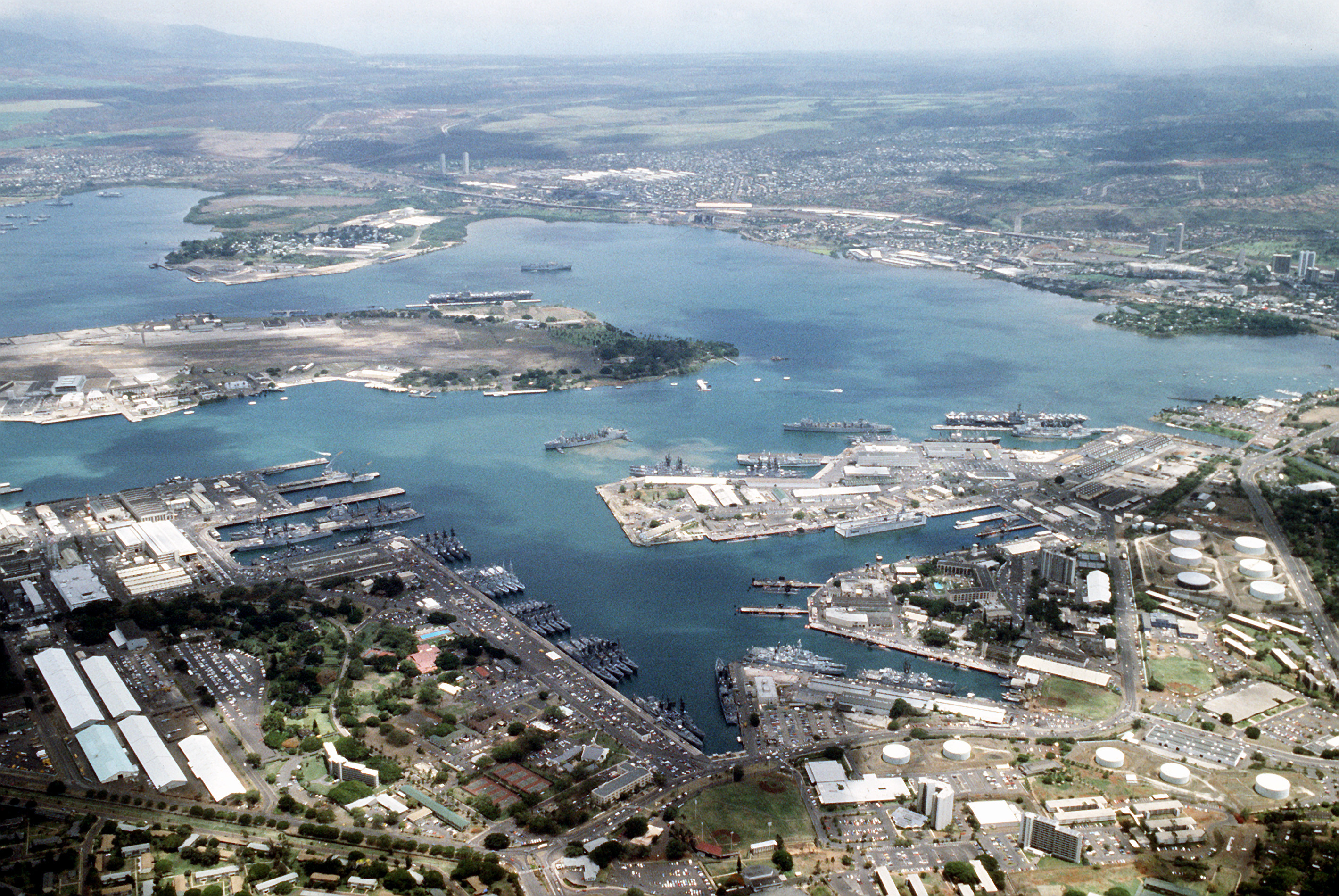 Aerial view of Pearl Harbor and Ford Island on 1 June 1986.